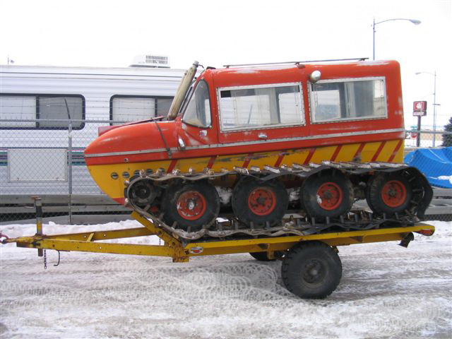 Rare Kristi built trailer, and Kristi KT3 The following text was removed from the image itself per Wikipedia's image use policy: Un-restored Kristi KT-3 on a rare factory made Kristi tilt bed trailer made for the KT-2 & KT-3